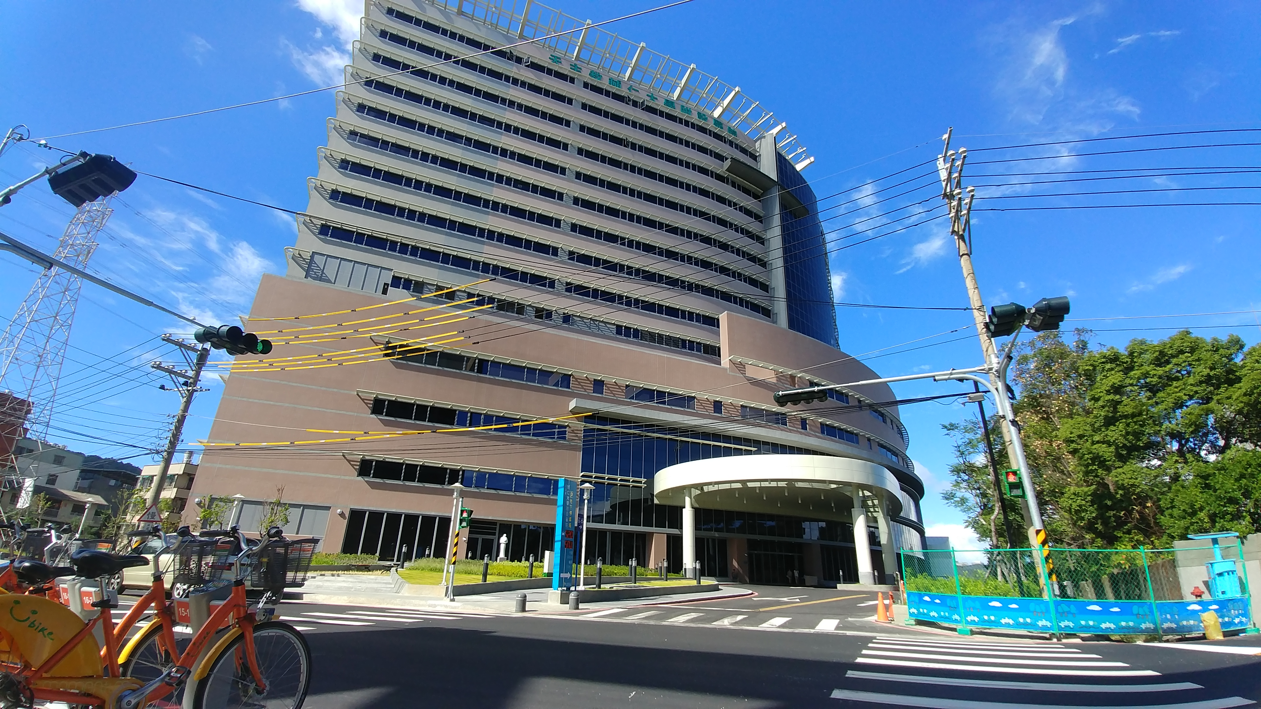 Fu Jen Catholic Univ. Hospital shot from Guizih Road, Taishan District, New Taipei City.